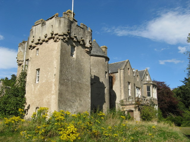 Westhall near Oyne. Nearly nothing has to be added to the comment on494946, except that it has been on the market at Savill's in 2007 but obviously nothing has changed according to